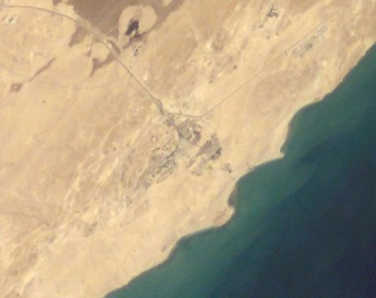 Satellite imagery of western Qatar taken in 2008 by NASA. Bahrain can be seen in the bottom right.